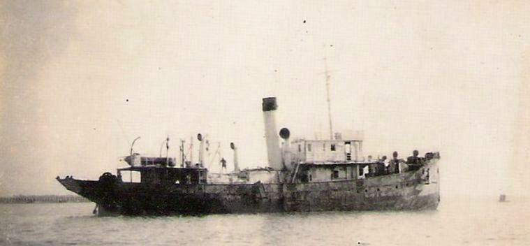 SS Nautilus sailing in the backwaters in Cochin, India around 1940